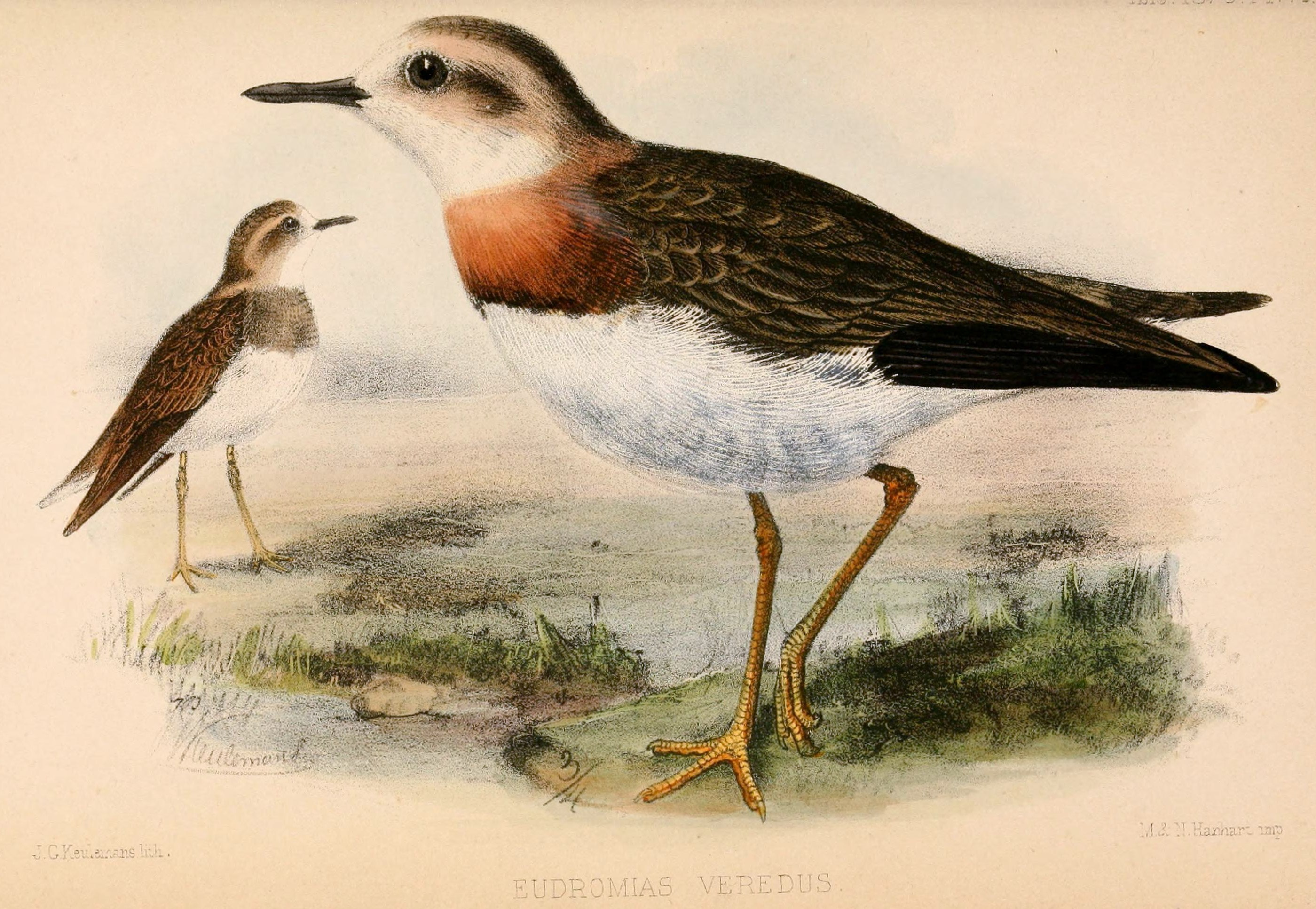 « Eudromias veredus » = Charadrius veredus (Oriental Plover)